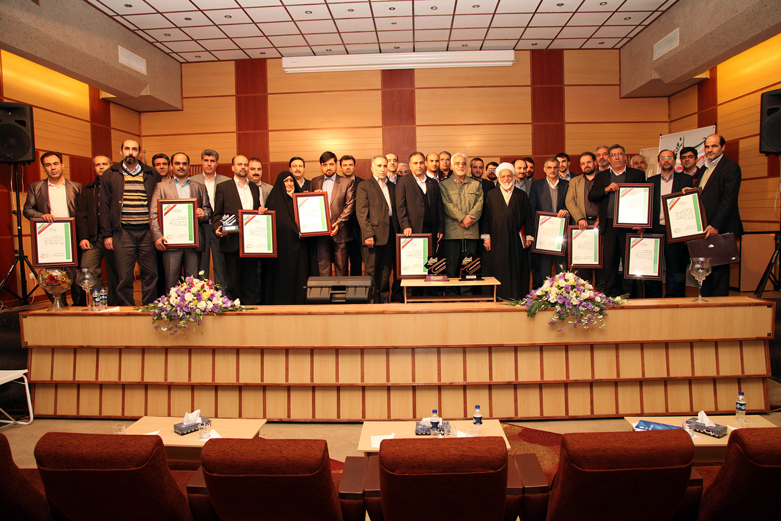 Closing Ceremony of third round of Productivity Award 1404